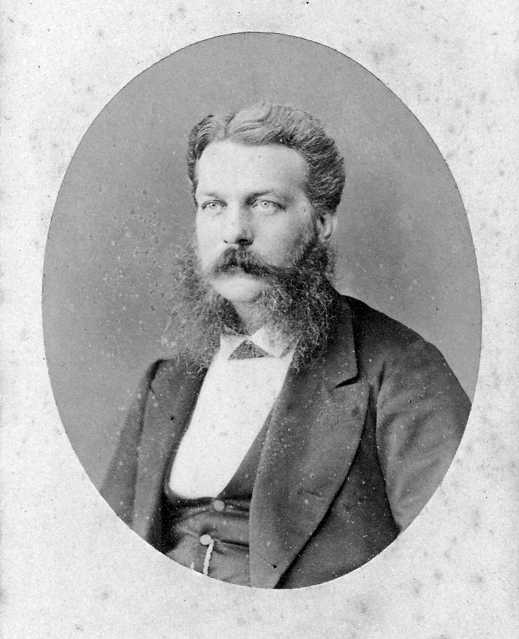 Refik Bey member of the Young Ottomans